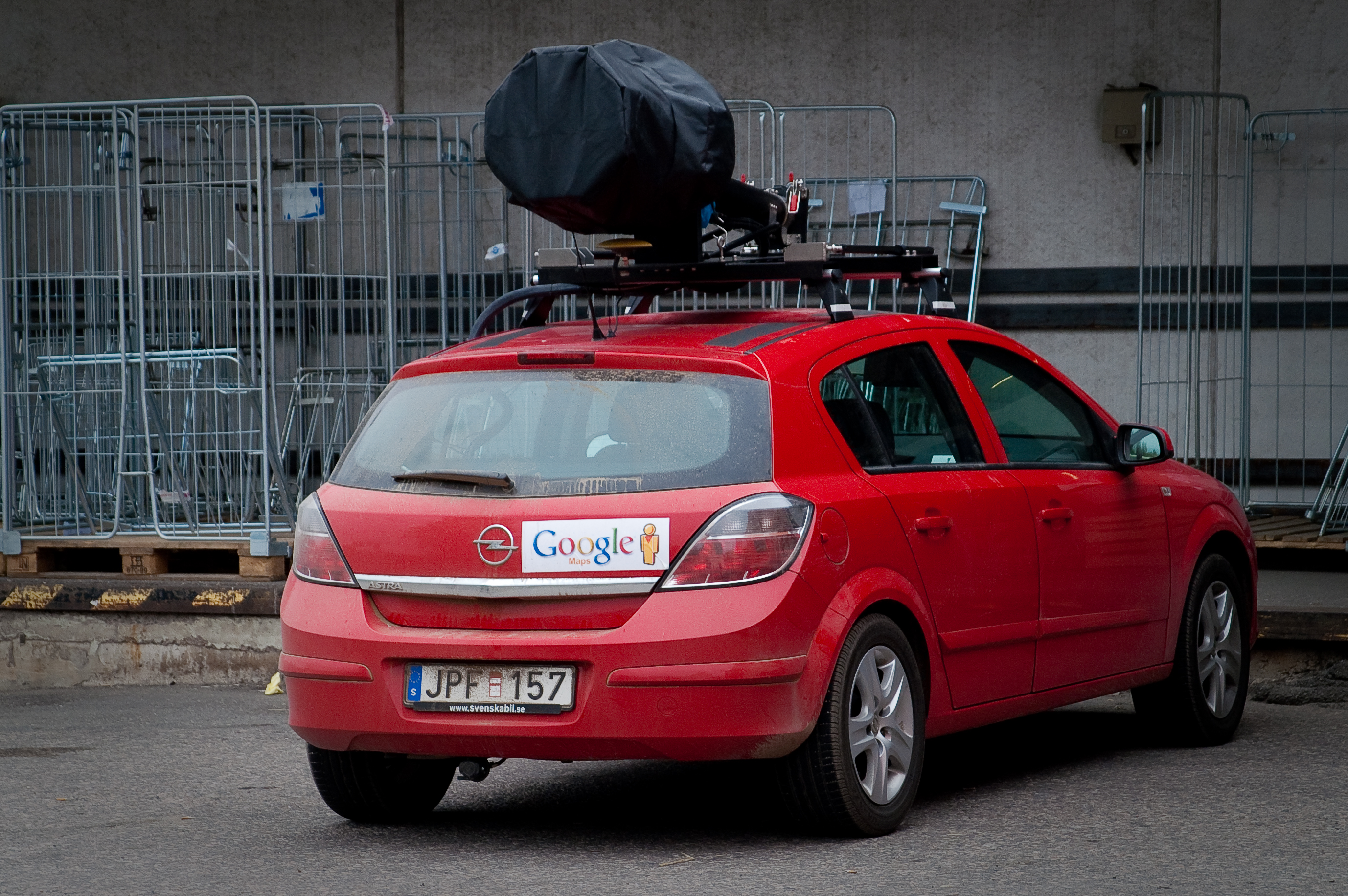 Google Street View Car in Turku, Finland Proper, Finland.